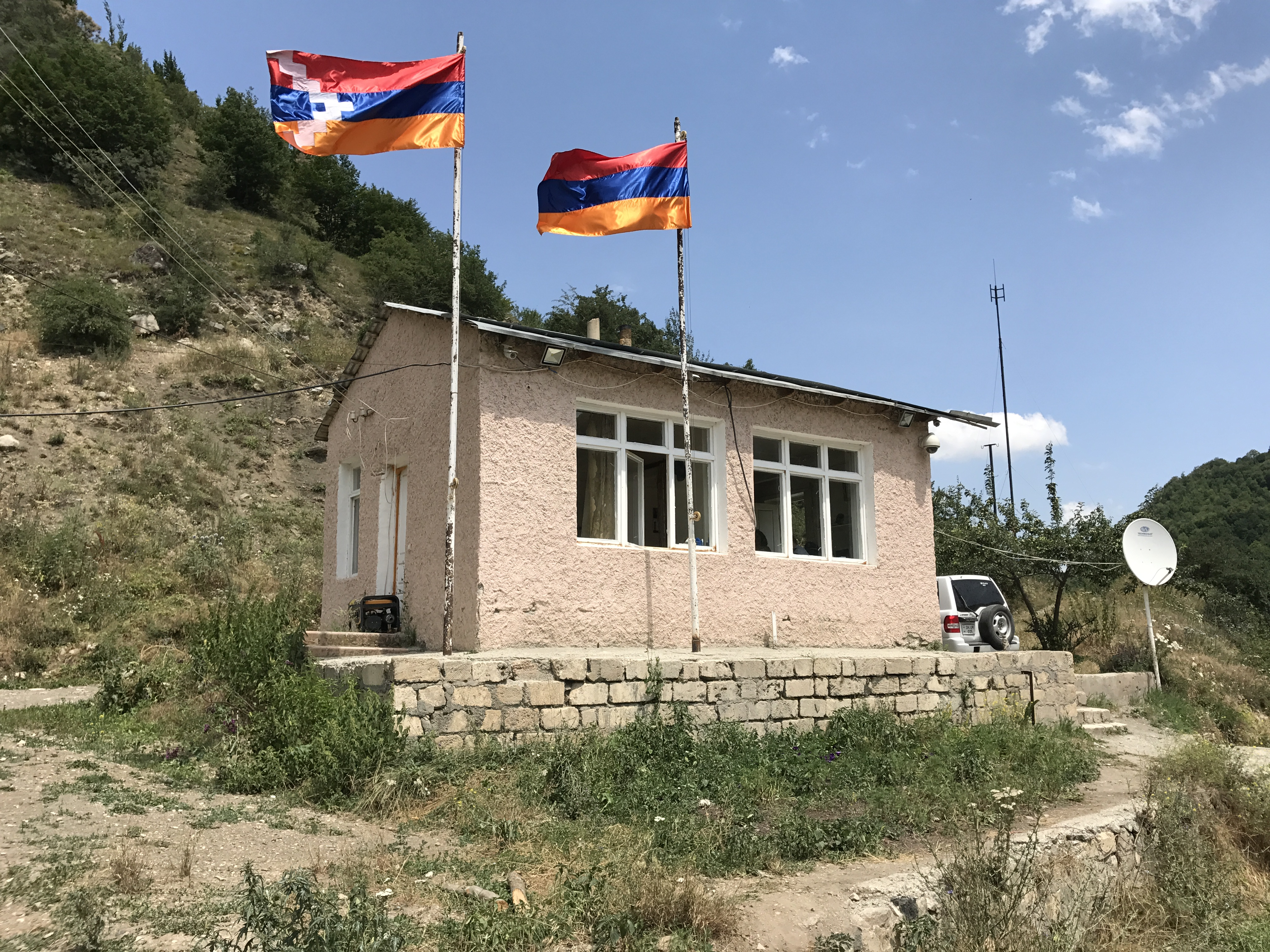 Checkpoint between Armenia and Artsakh on the north-road Vardenis-Mardakert in July 2017. We can see flags of the two countries.